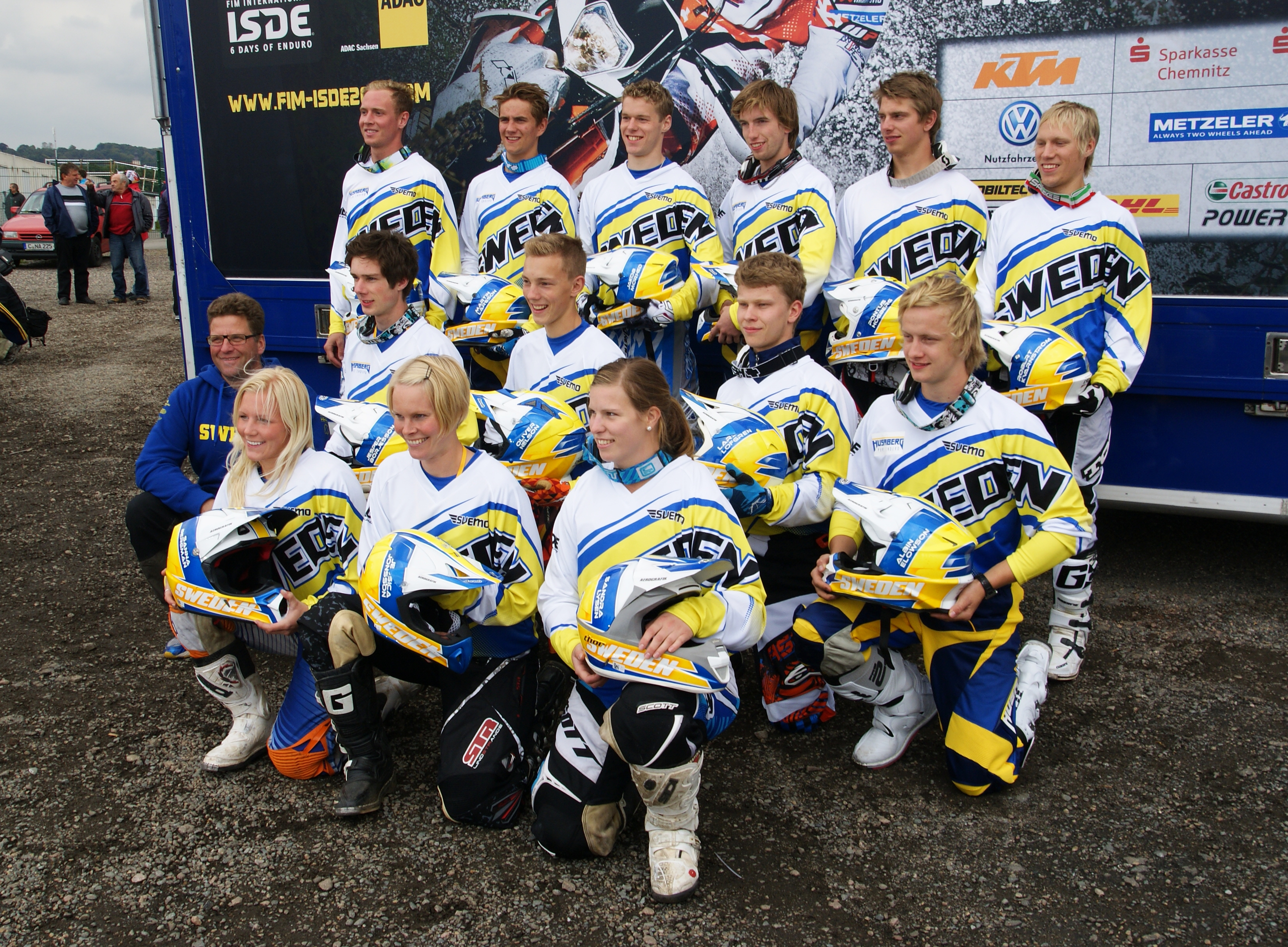 The making of this document was supported by the Community-Budget of Wikimedia Germany. 87. ISDE Red Bull Six Days 2012 National Teams Sweden